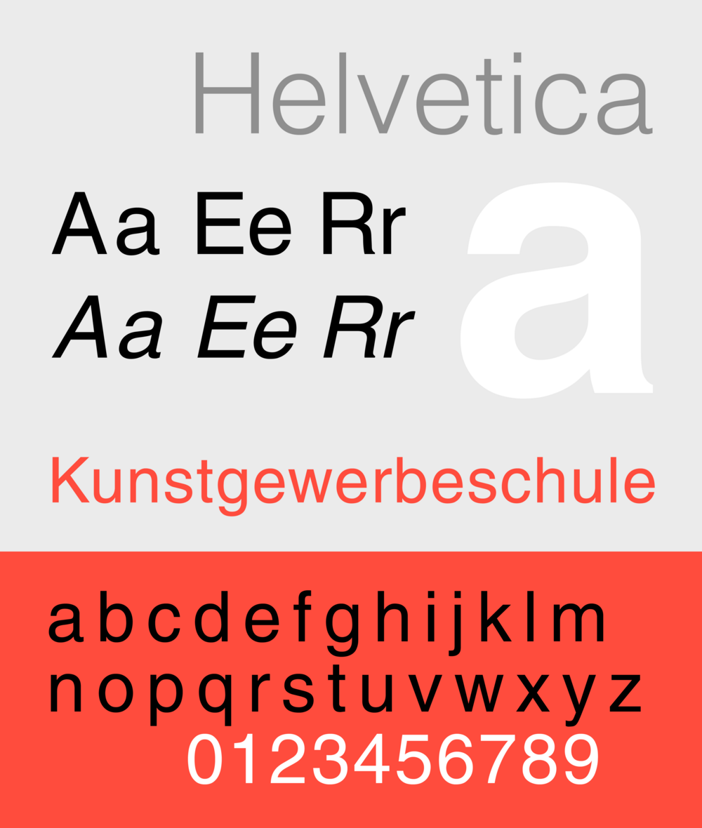 Specimen of the Helvetica typeface. December 2006. (original sample made by GearedBull)